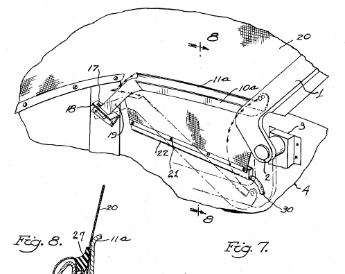 This is a drawing from the US patent involved in Aro Mfg. Co. v. Convertible Top Replacement Co. It is not subject to copyright because it is part of a US patent.